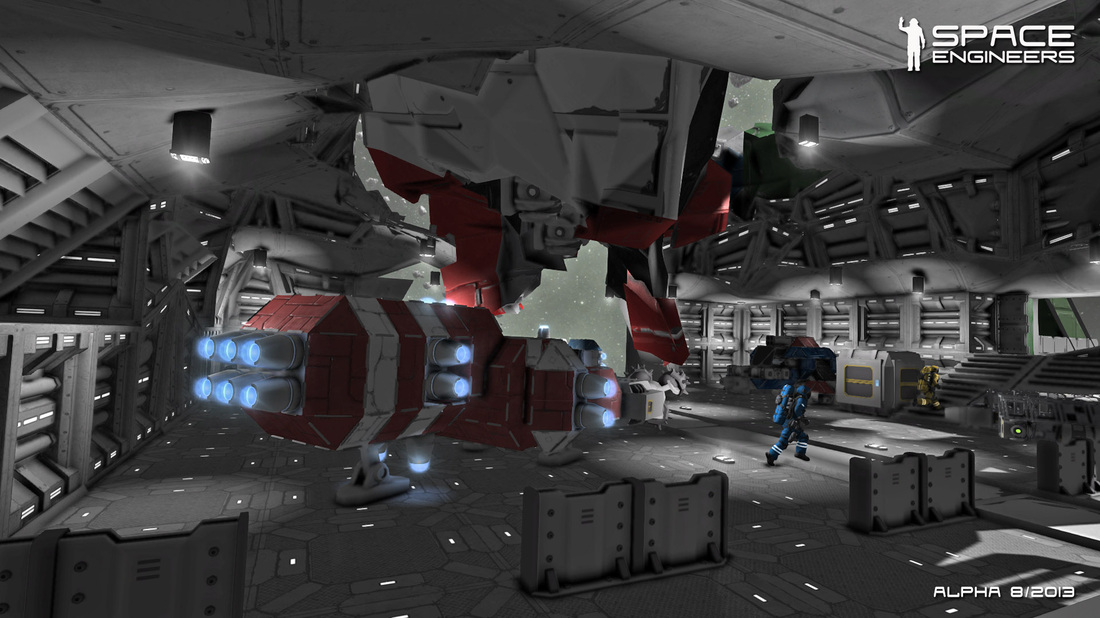 Screenshot of the game showing internal damage to a structure resulting from a collision.